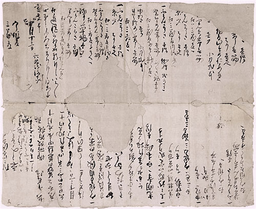 Jagatara-bumi, Matsura Historical Museum, Hirado, Nagasaki, Japan